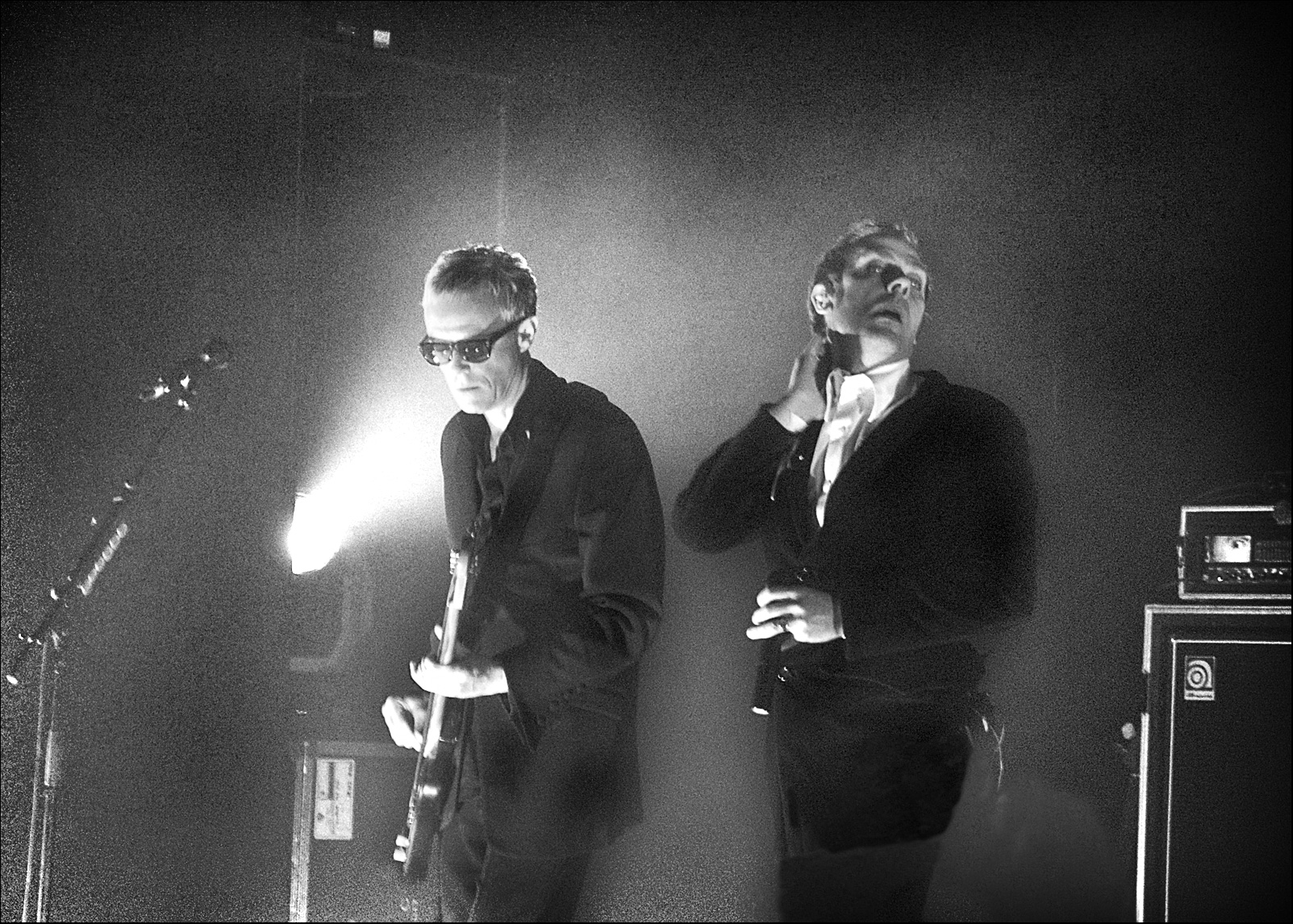 Bassist David J and vocalist Peter Murphy in concert with Bauhaus in London.